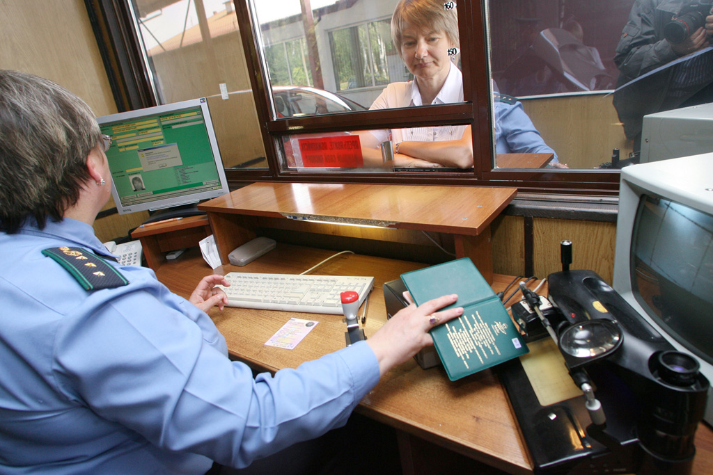 “Mamonovo-Avtodorozhnoye border-control checkpoint on the Russian-Polish border in the Kaliningrad Region”. Mamonovo-Avtodorozhnoye border-control checkpoint on the Russian-Polish border in the Kaliningrad Region.